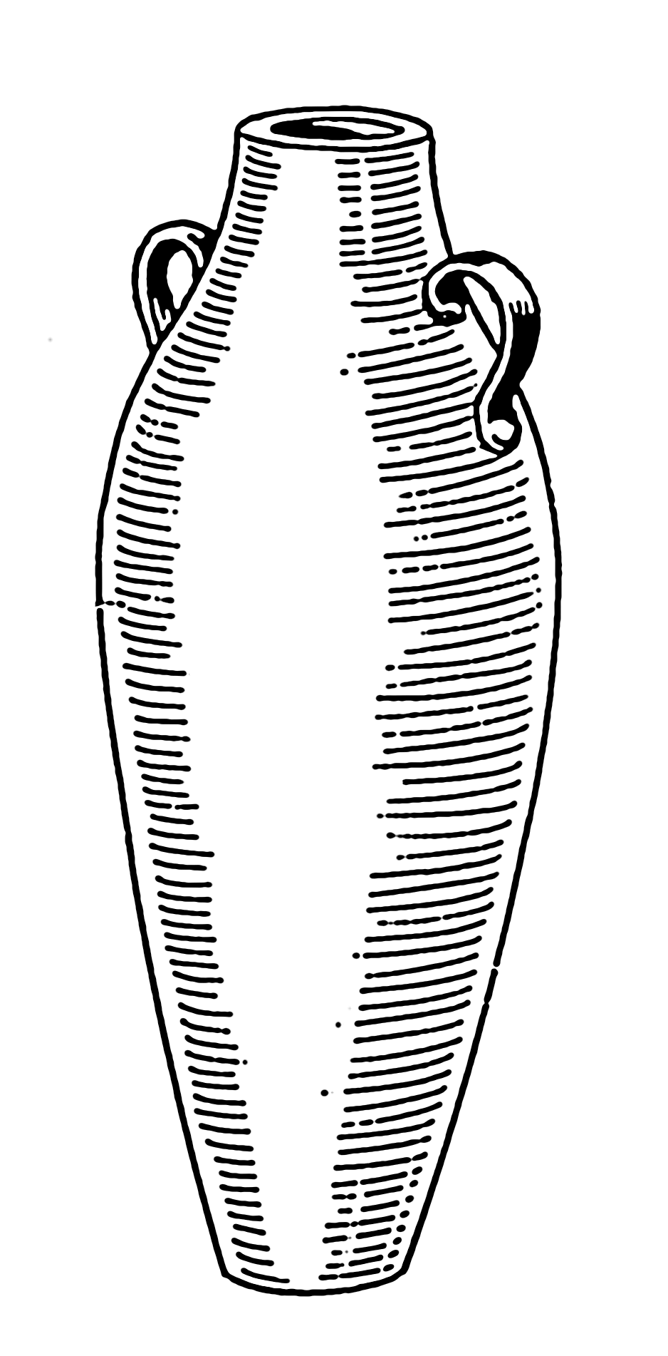 Line art drawing of a cruse.